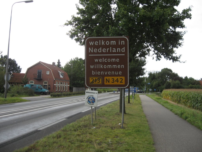 Dutch Provincial road 342 near the Dutch/German border at Noord Deurningen